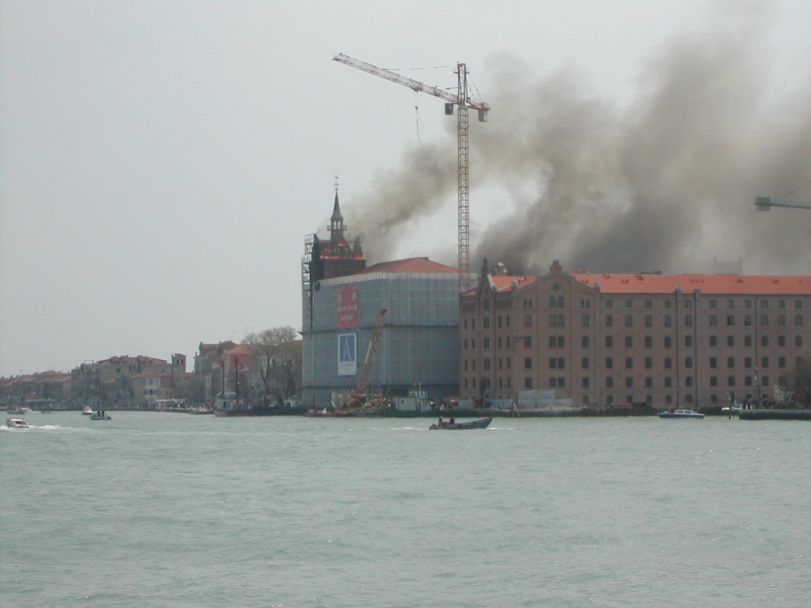 Molino Stucky (Venice) during April 2003 fire